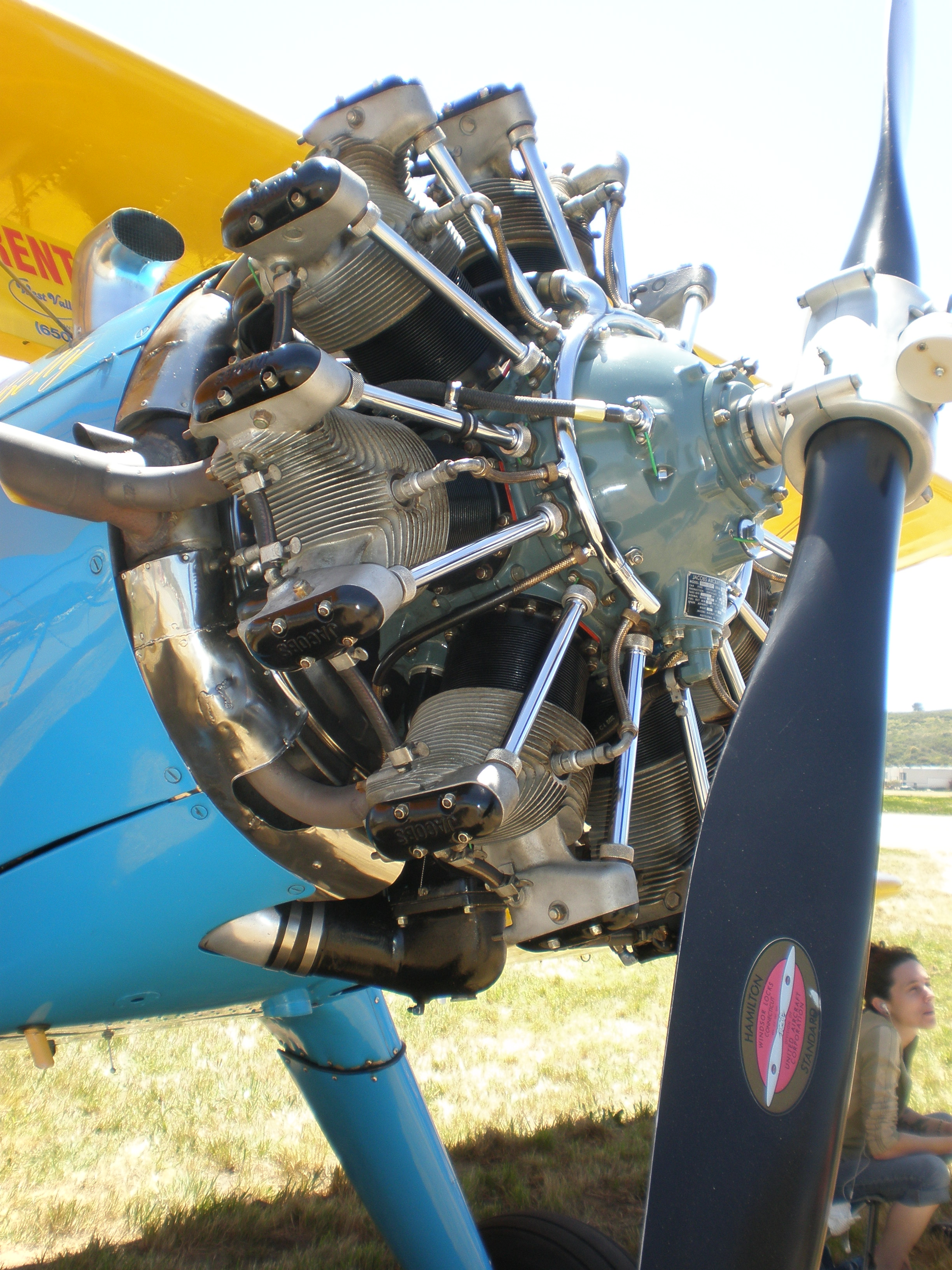 The Jacobs R-755 engine of a Boeing-Stearman PT-18 at the Pacific Coast Dream Machines vehicle show at the Half Moon Bay Airport in Half Moon Bay, California.